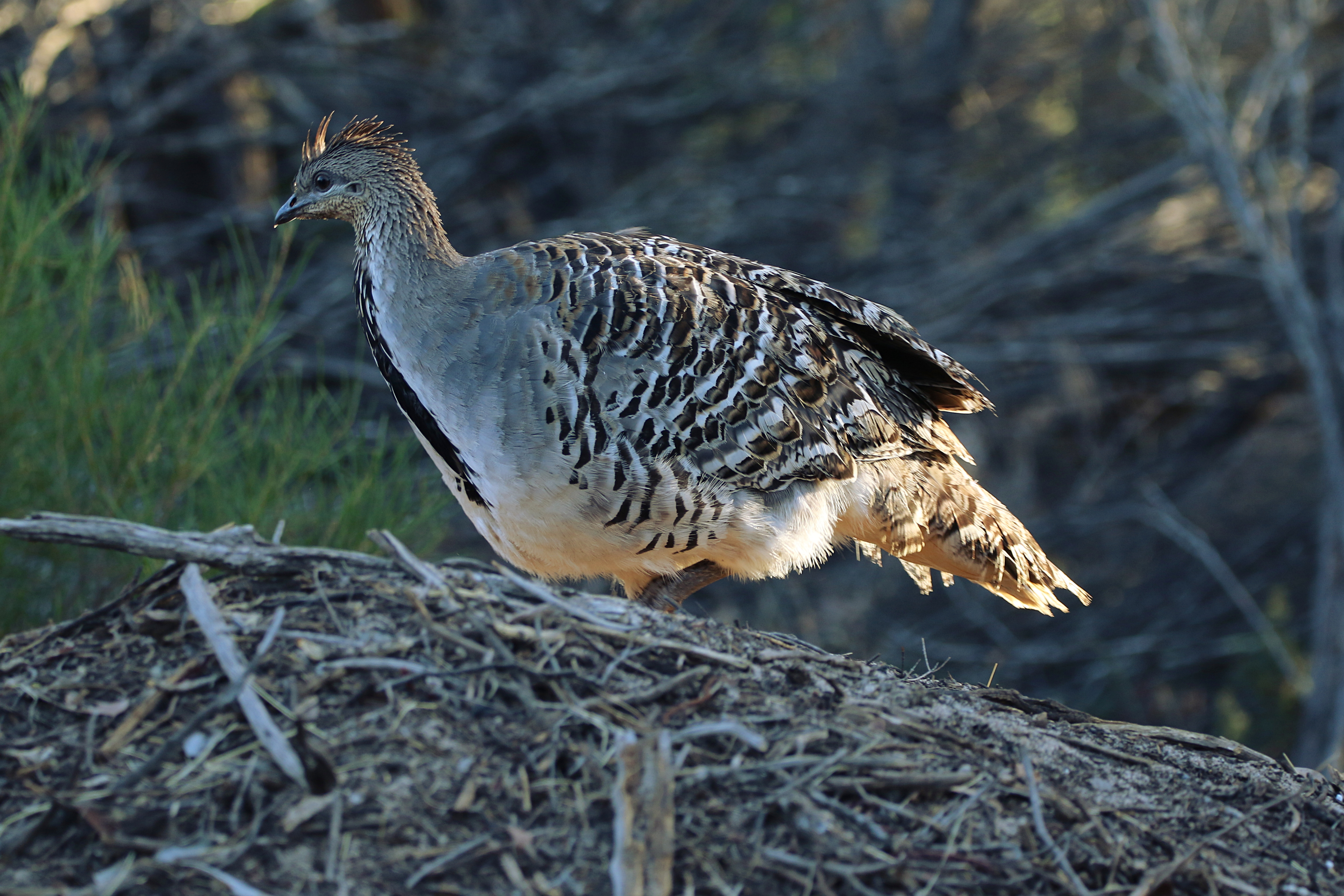 Leipoa ocellata Gould, 1840, Malleefowl, Little Desert National Park, VIC, 26 January 2017